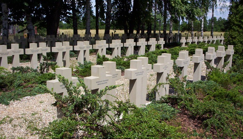 Cemetery of the Home Army soldiers from Kampinos Group in Budy Zosiny. The Group, trying to reach Świętokrzyskie Mountains, got surrounded and decimated on the 29th of September 1944 near Budy Zosiny village.